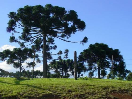 Remainders of the species Araucaria angustifolia in the rural zone of Almirante Tamandaré, Paraná, Brazil.